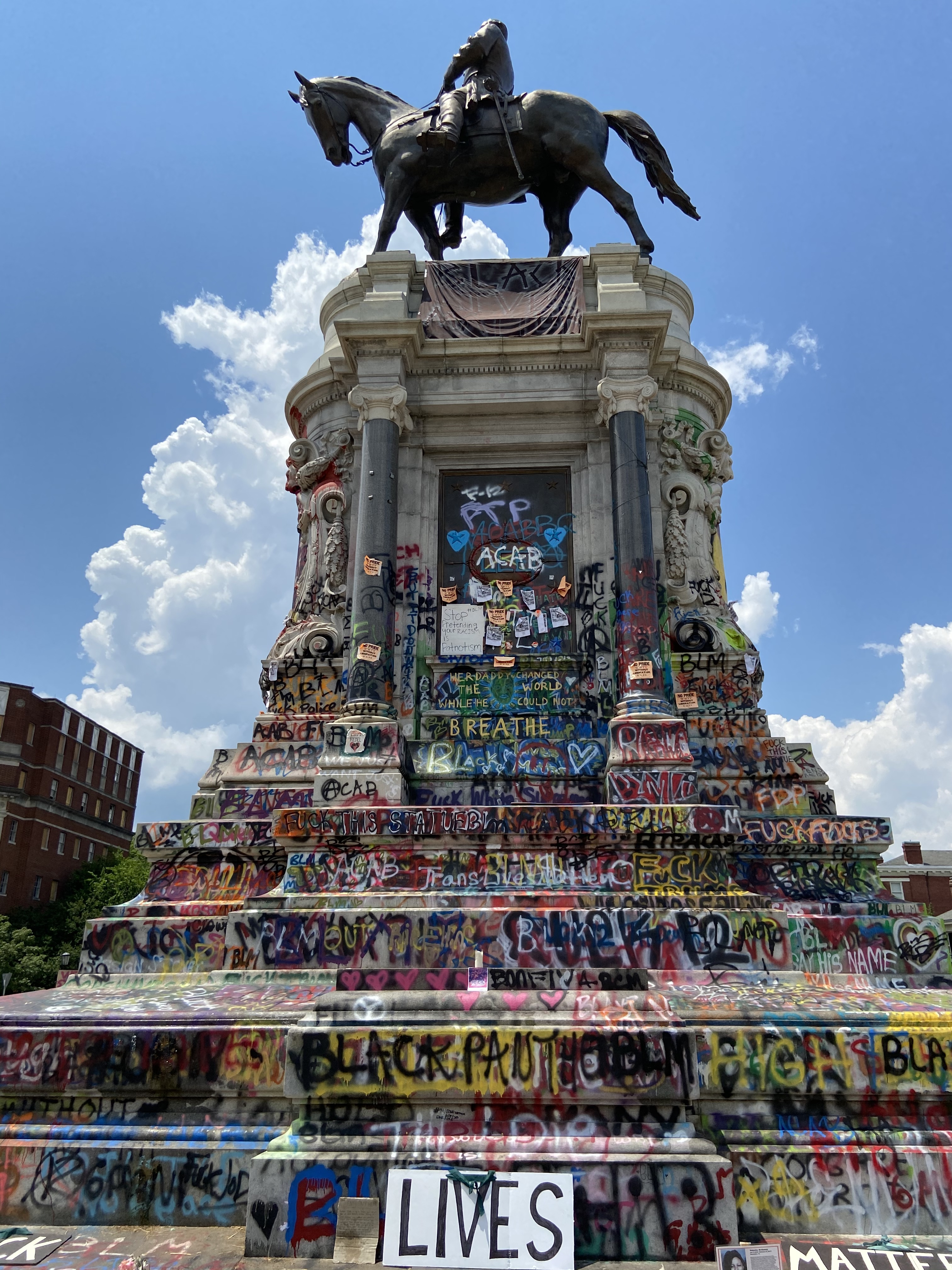 Robert E. Lee Monument as it stands on July 1, 2020 after being defaced during the George Floyd Protests